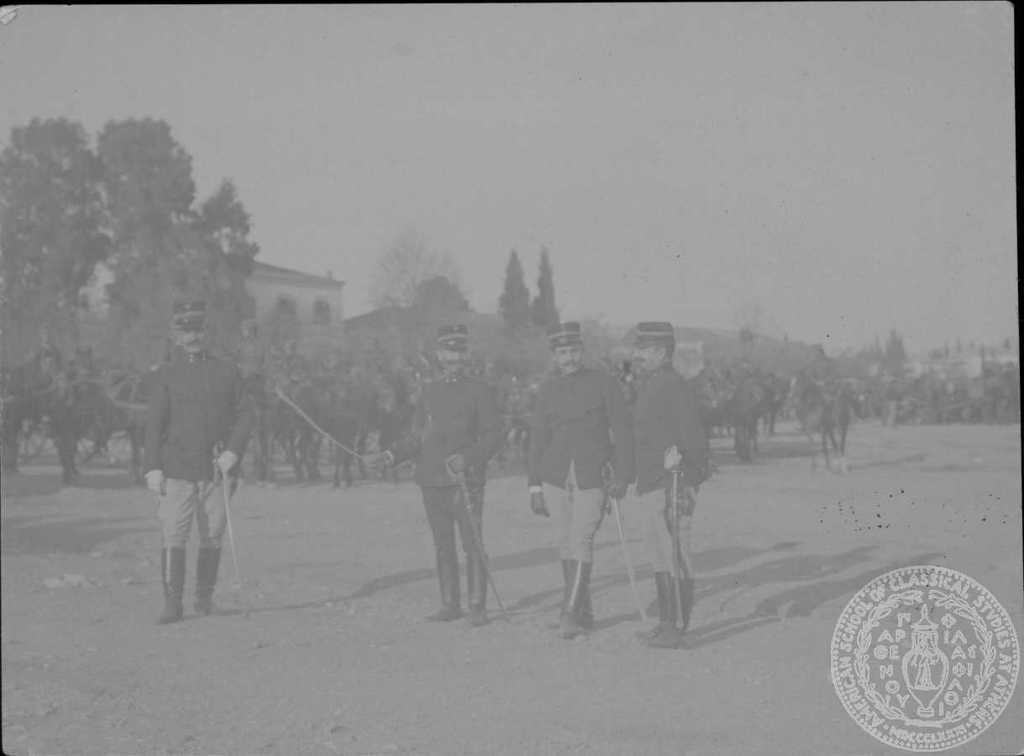 Voutsinas, Avrasoglou and Stylianos Gonatas